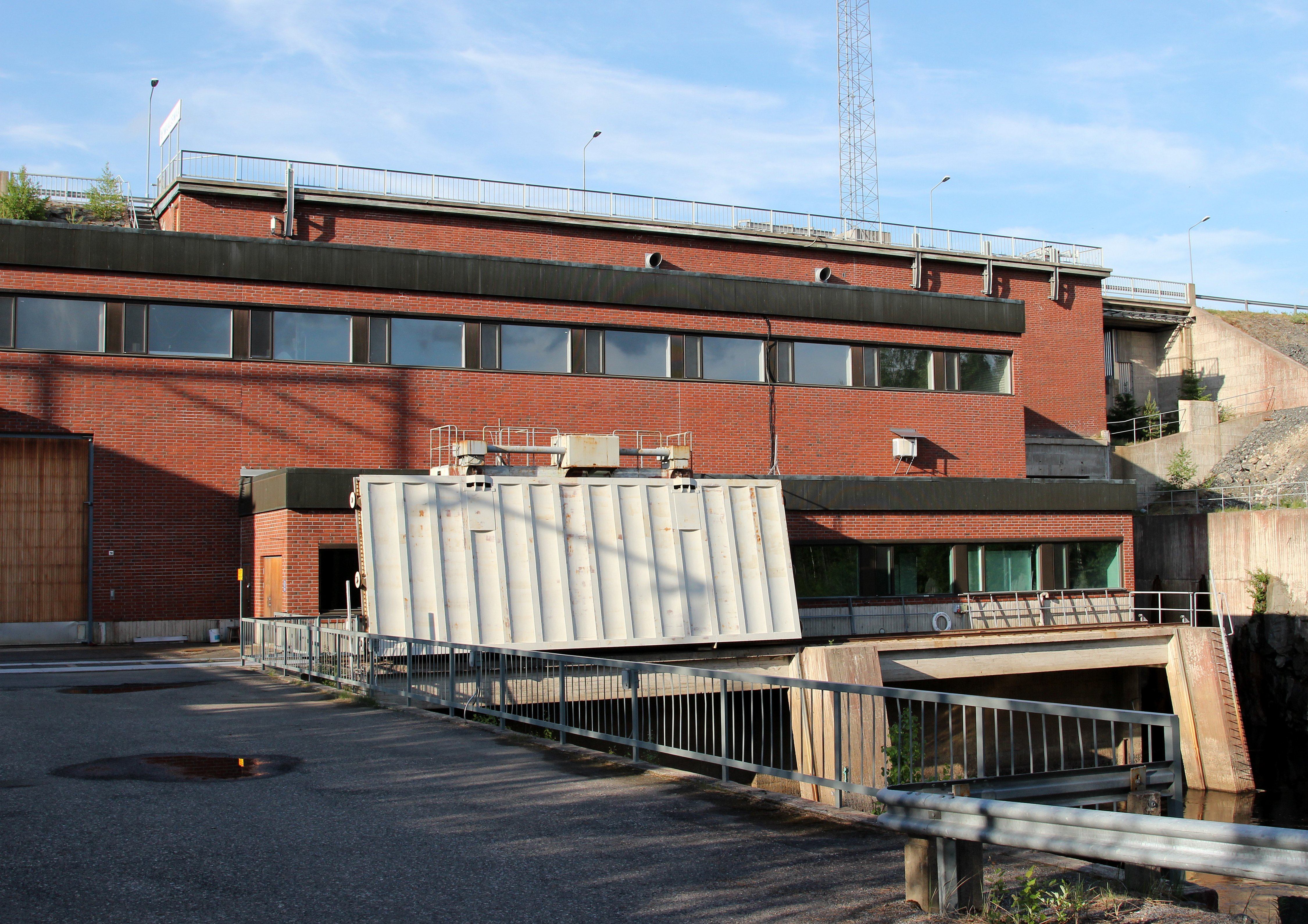 Maalismaa hydroelectric power plant on Iijoki River.